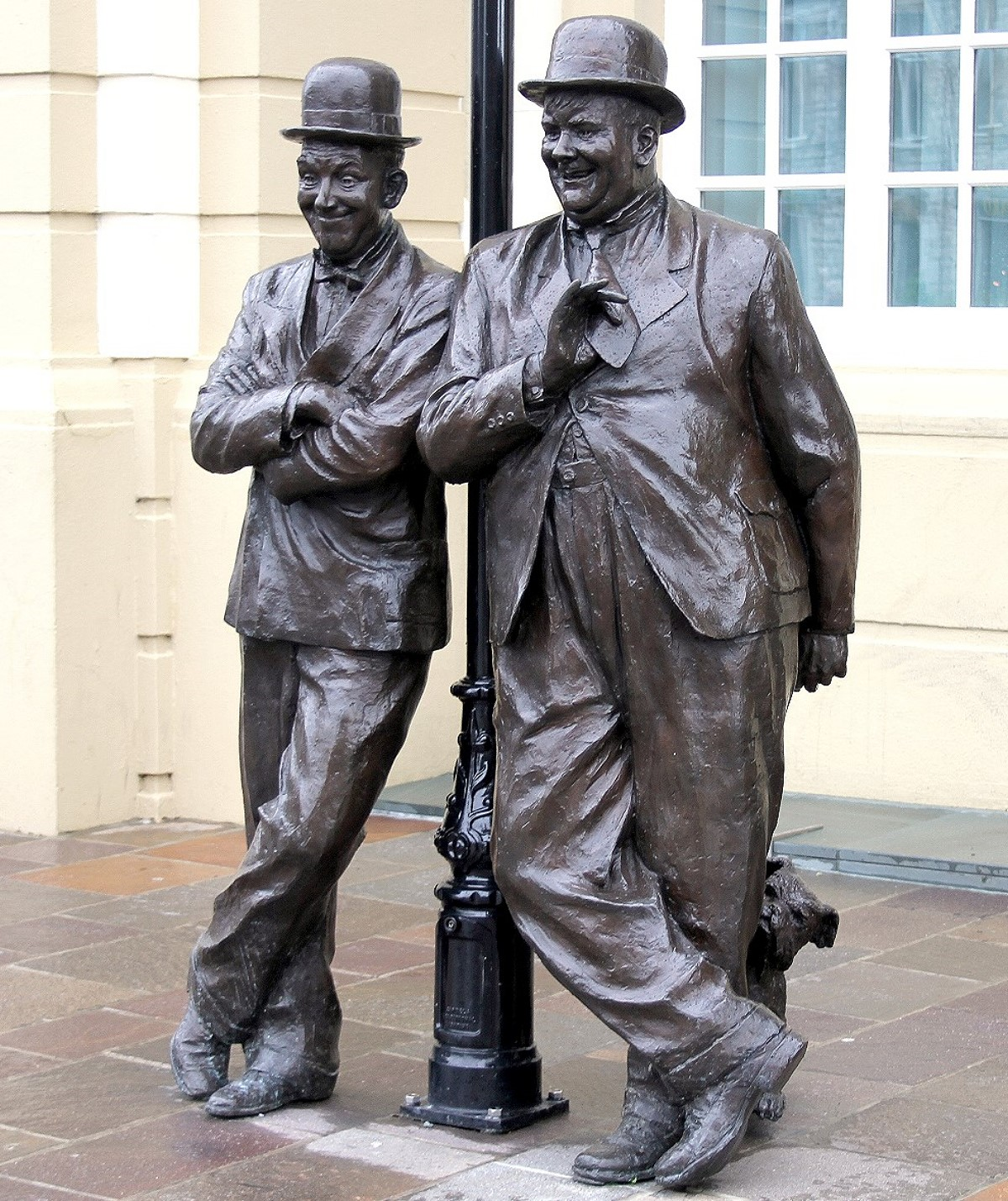 Statues of Stan Laurel and Oliver Hardy, Ulverston, Cumbria, England